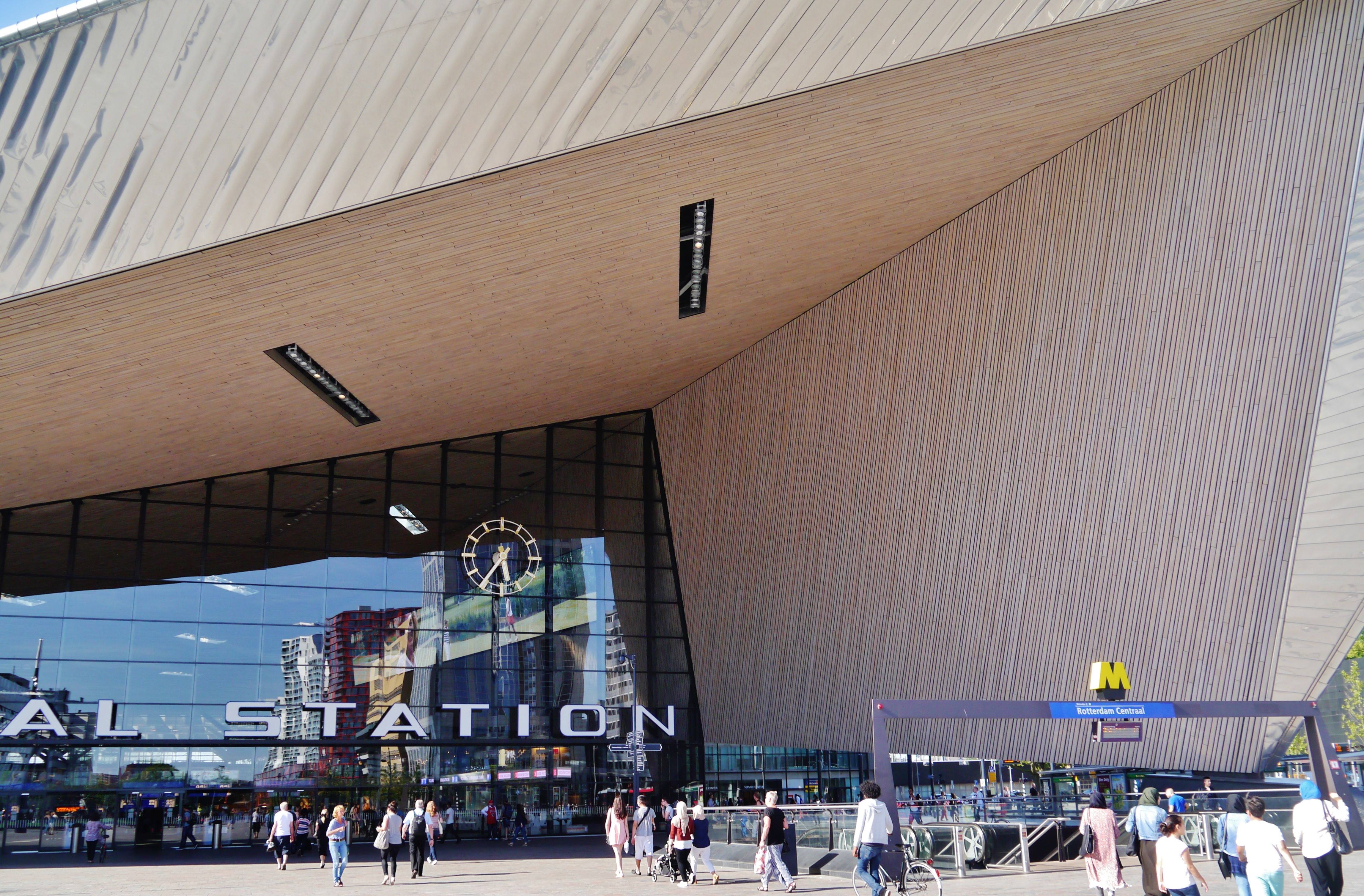 Central Station, Rotterdam, Province of South Holland, Netherlands